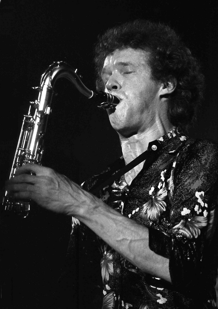 Bertus Borgers performing live in The Netherlands, 1978